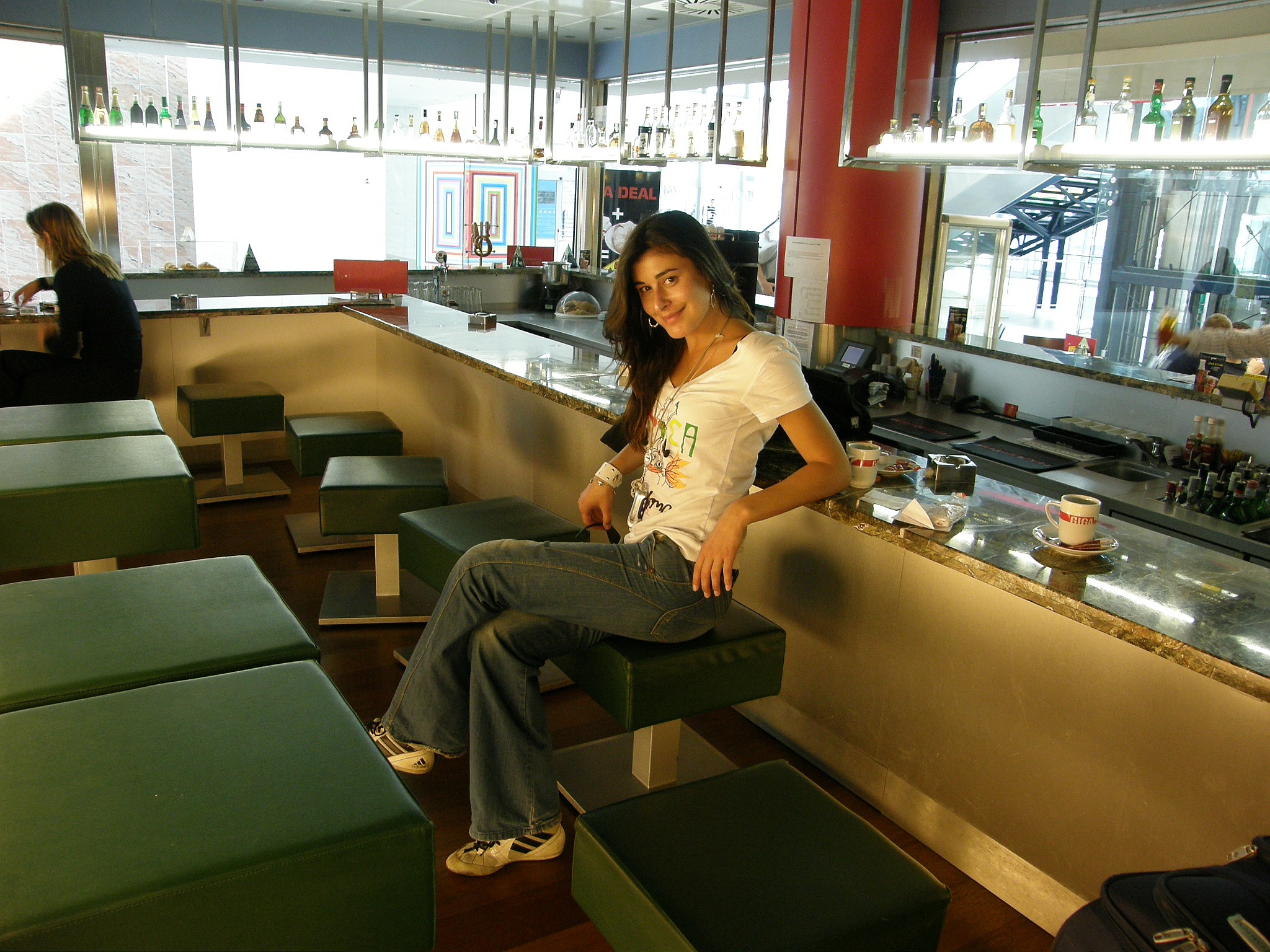 Model - Eva Vašková - from Brno, Czech Republic.